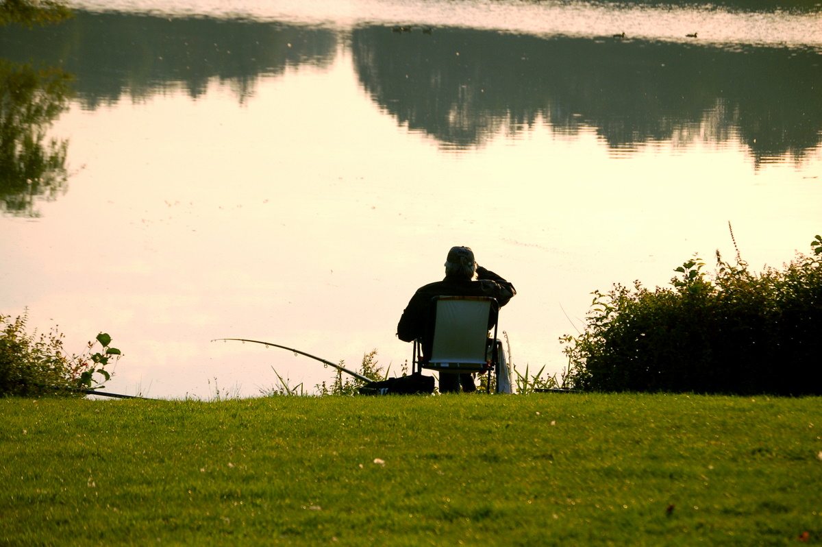 This image shows a fisherman.